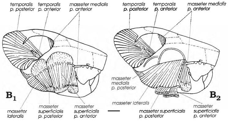 Reconstruction of the masticatory musculature. B. Catopsbaatar catopsdoides, based on surface topography of the bones. B1 superficial layers. B2, second layers. Masseter lateralis profundus is referred to as masseter lateralis. Scale bars - 5 mm.